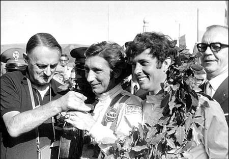 Targa Florio 1970 - John Wyer, Jo Siffert and Brian Redman (from left) after the podium ceremony